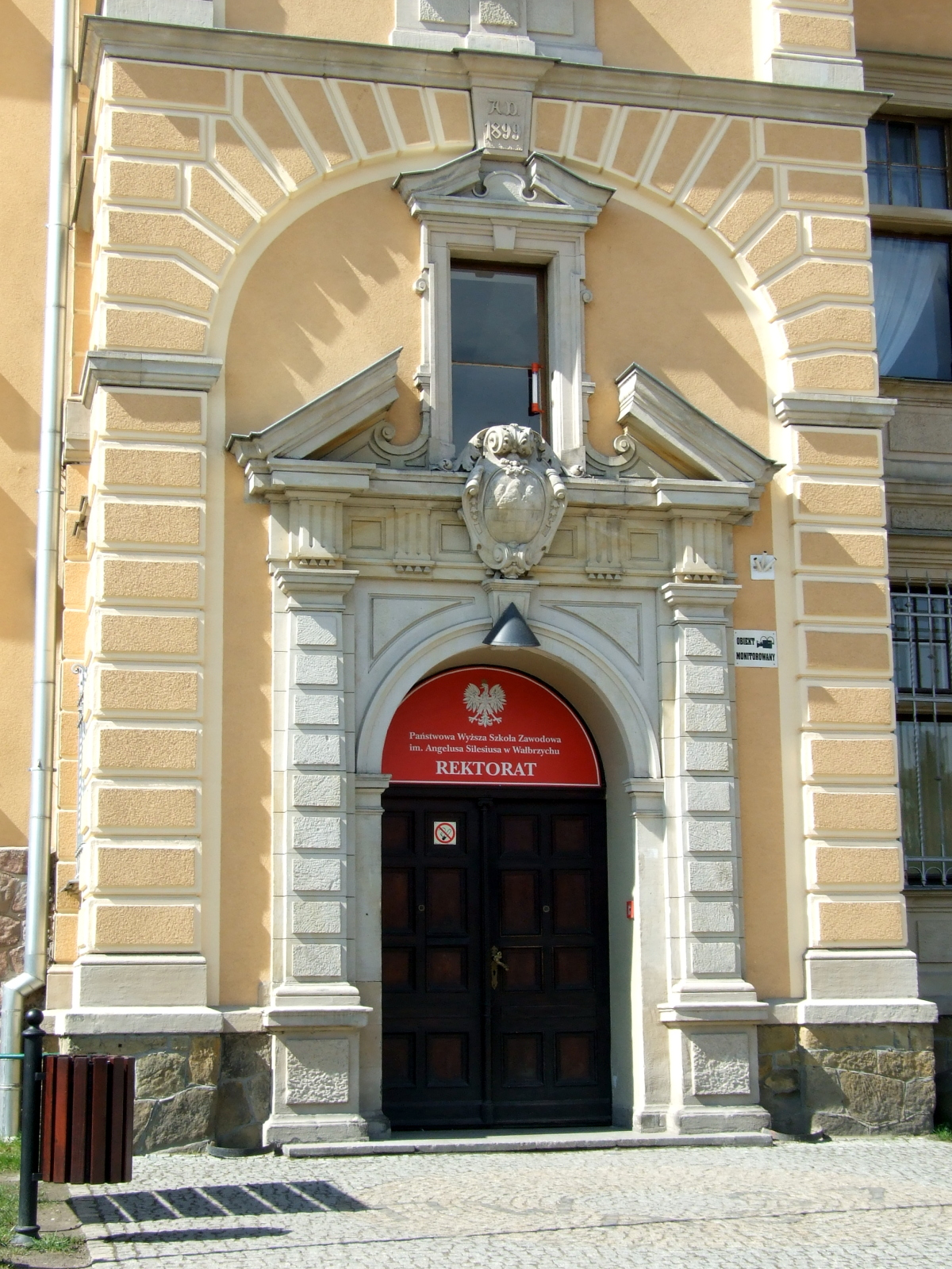 Państwowa Wyższa Szkoła Zawodowa im. Angelusa Silesiusa w Wałbrzychu, building A entrance.